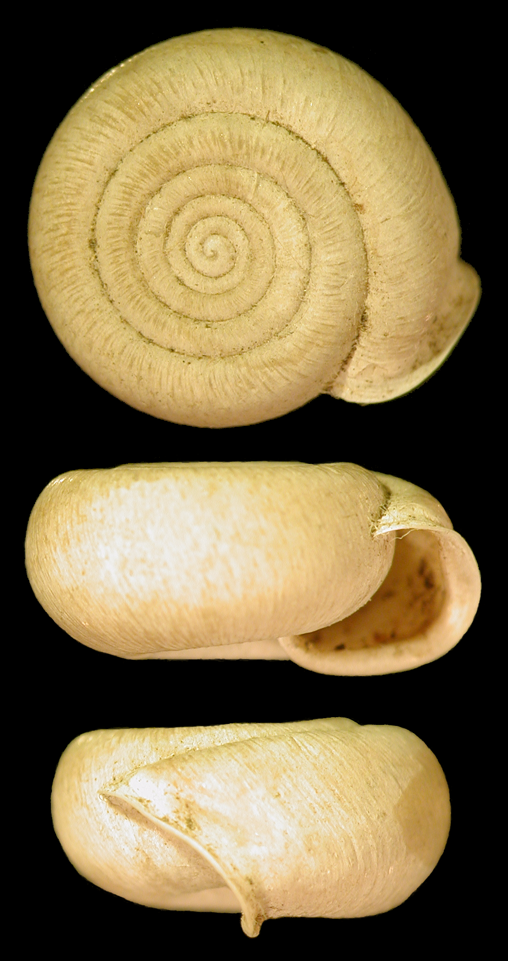 Helicodonta obvoluta; European pulmonate land snail; fossil (Holocene) from The Netherlands